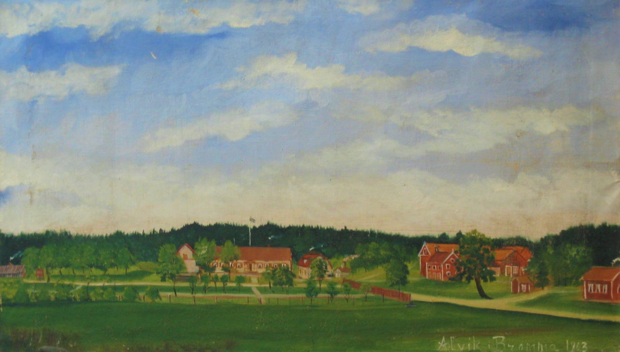 Alviks estate, Bromma, oil painting 1903 by unknown artist.